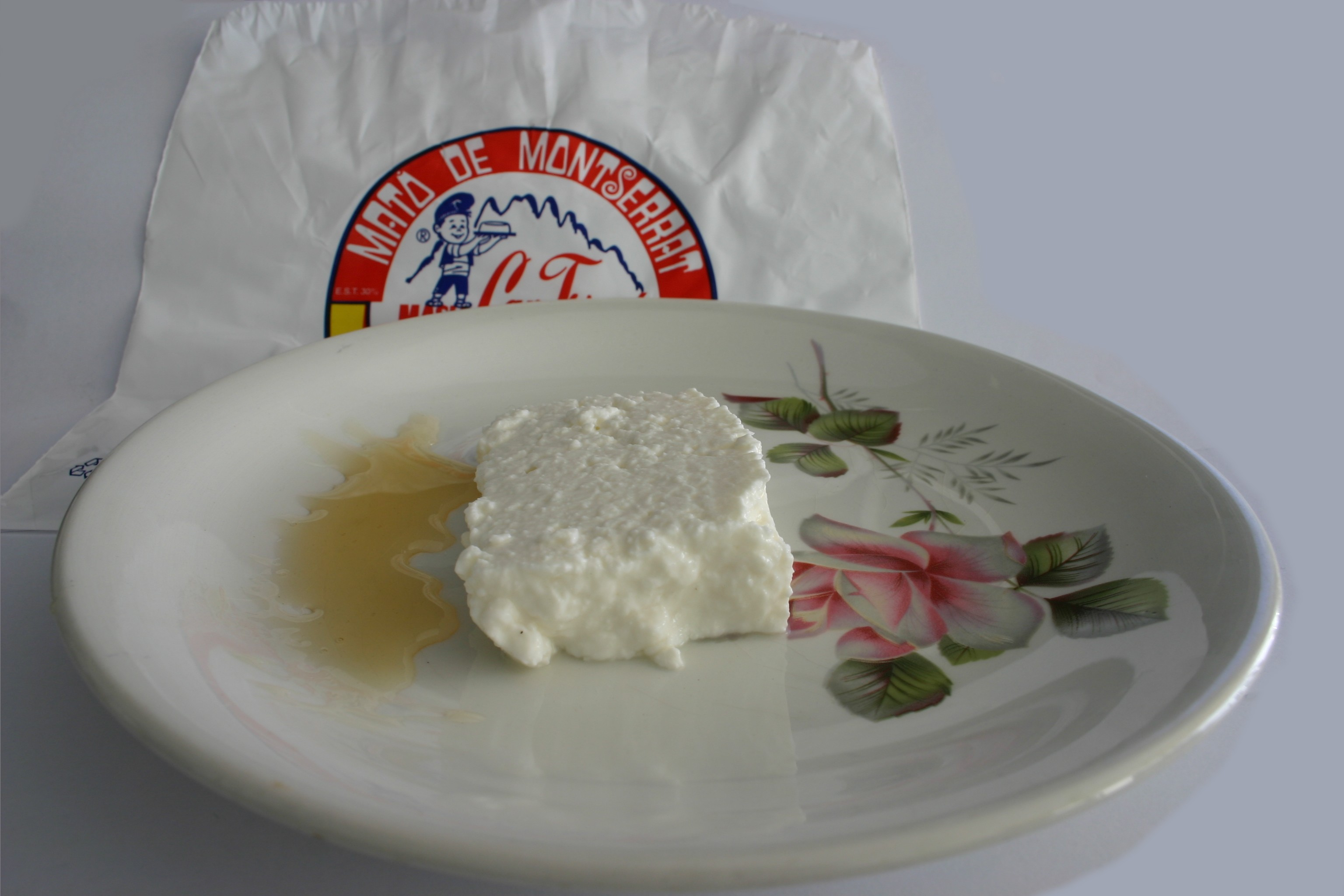 Mato cheese Comments: Mato cheese buyed at the Fira de la Candelaria. Molins de Rei. (Catalonia) By/Por: Yearofthedragon